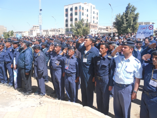 Yemeni air force soldiers in a protest demonstration in the Sixty-Street in sanaa to demand the dismissal the leader of air force Mohammed Saleh al Ah­mar